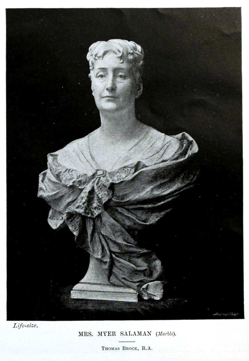 Bust of Mrs Myer Salaman (Sarah) in marble